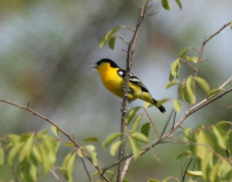 Common Iora Aegithina tiphia at Deer Park in Shamirpet, Rangareddy district, Andhra Pradesh, India.